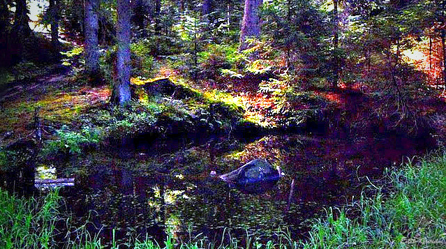 Bijambare forest, Bosnia and HerzegovinaBosanski: Bijambarska suma, Bosna i Hercegovina